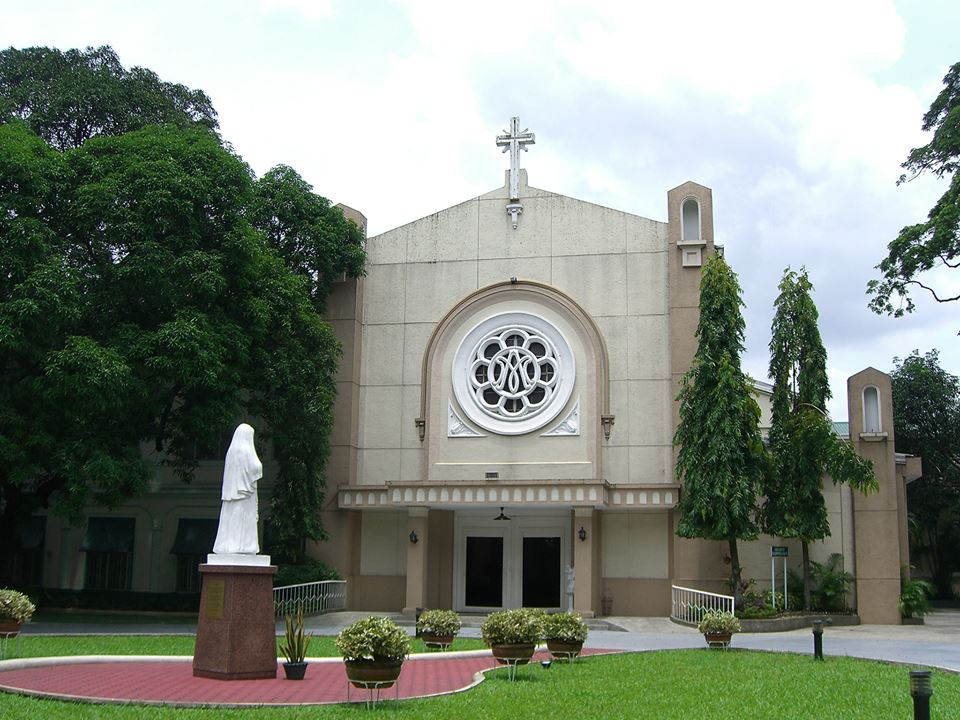 RVM Chapel